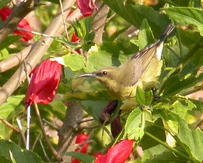 The Copper Sunbird (Nectarinia cuprea). Female seen in Uganda.